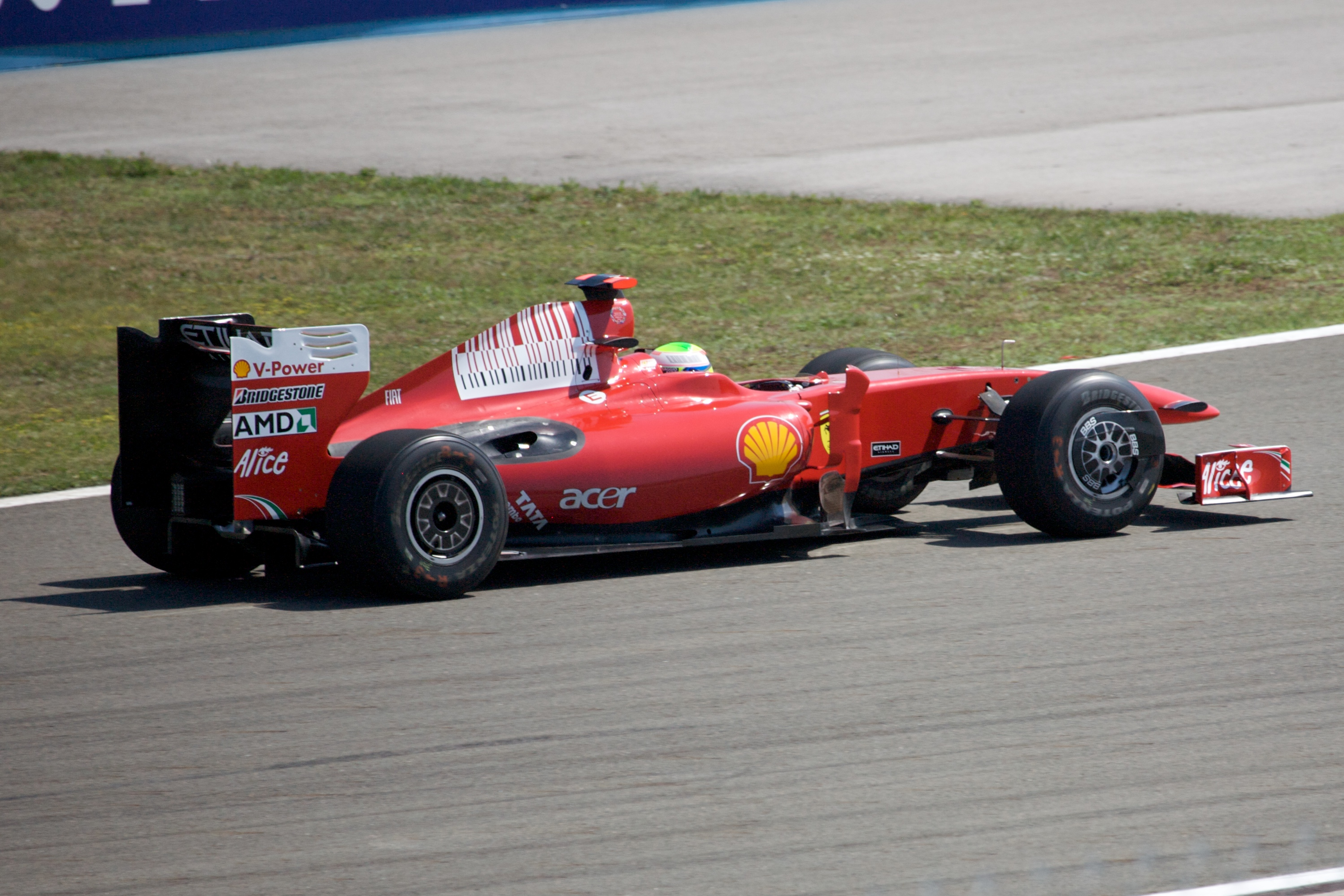 Felipe Massa driving for Scuderia Ferrari at the 2009 Turkish Grand Prix.